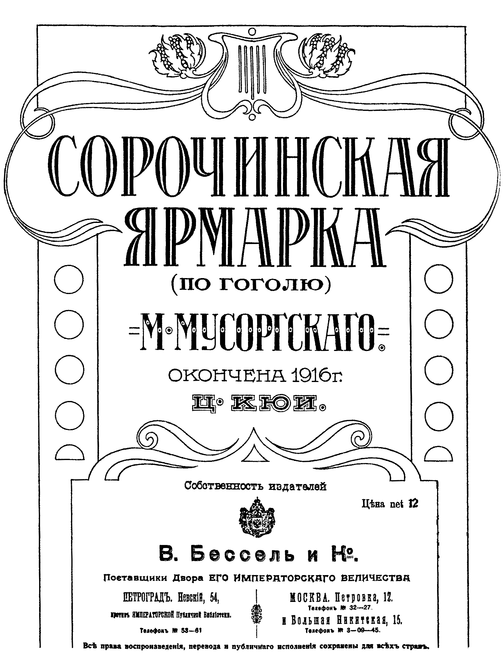 Modest Mussorgsky, César Cui - The Fair at Sorochyntsi - title page of the piano reduction - Petrograd 1916